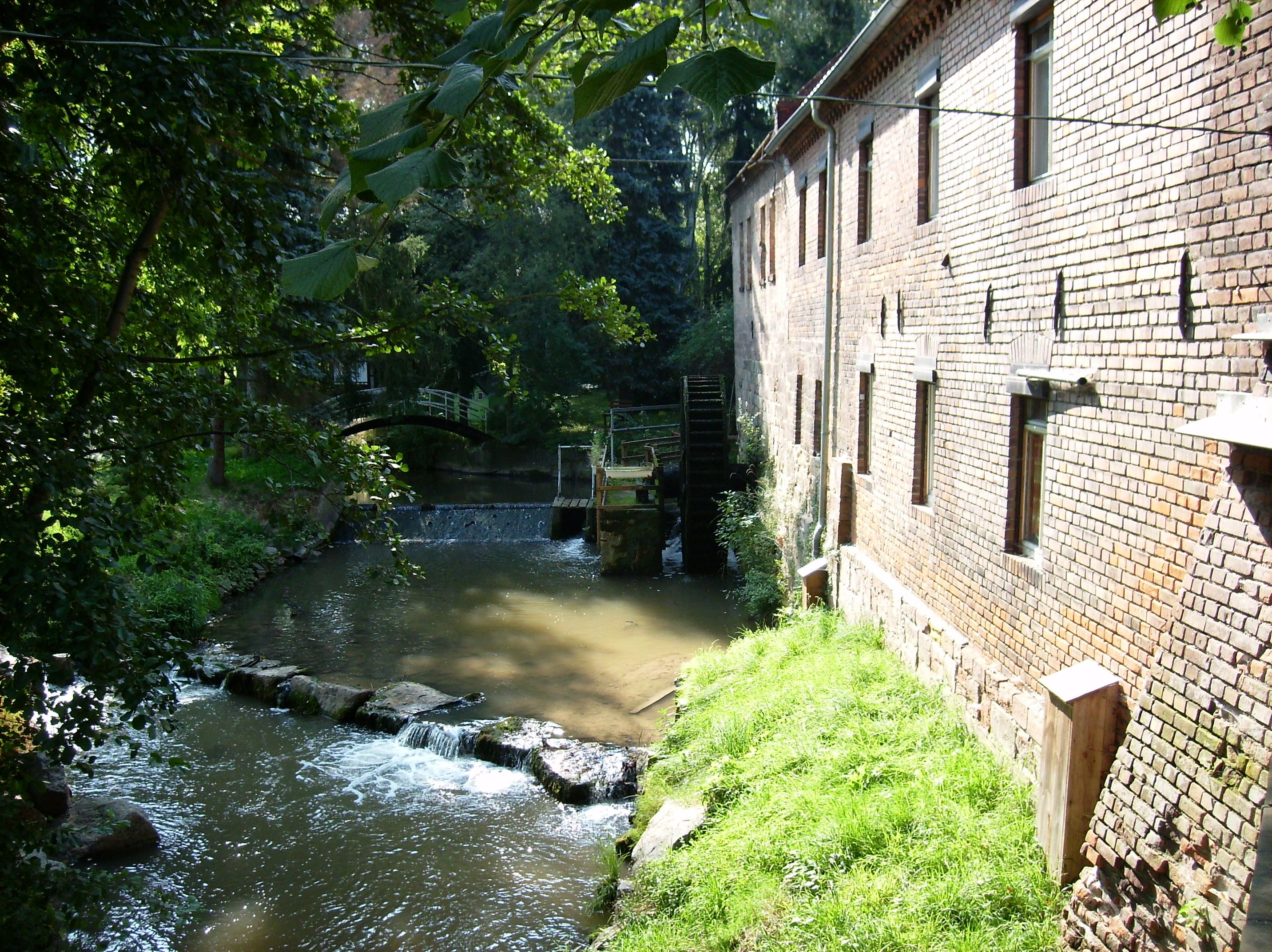 Neumühle ("New mill") near Schönburg (district: Burgenlandkreis, Saxony-Anhalt)